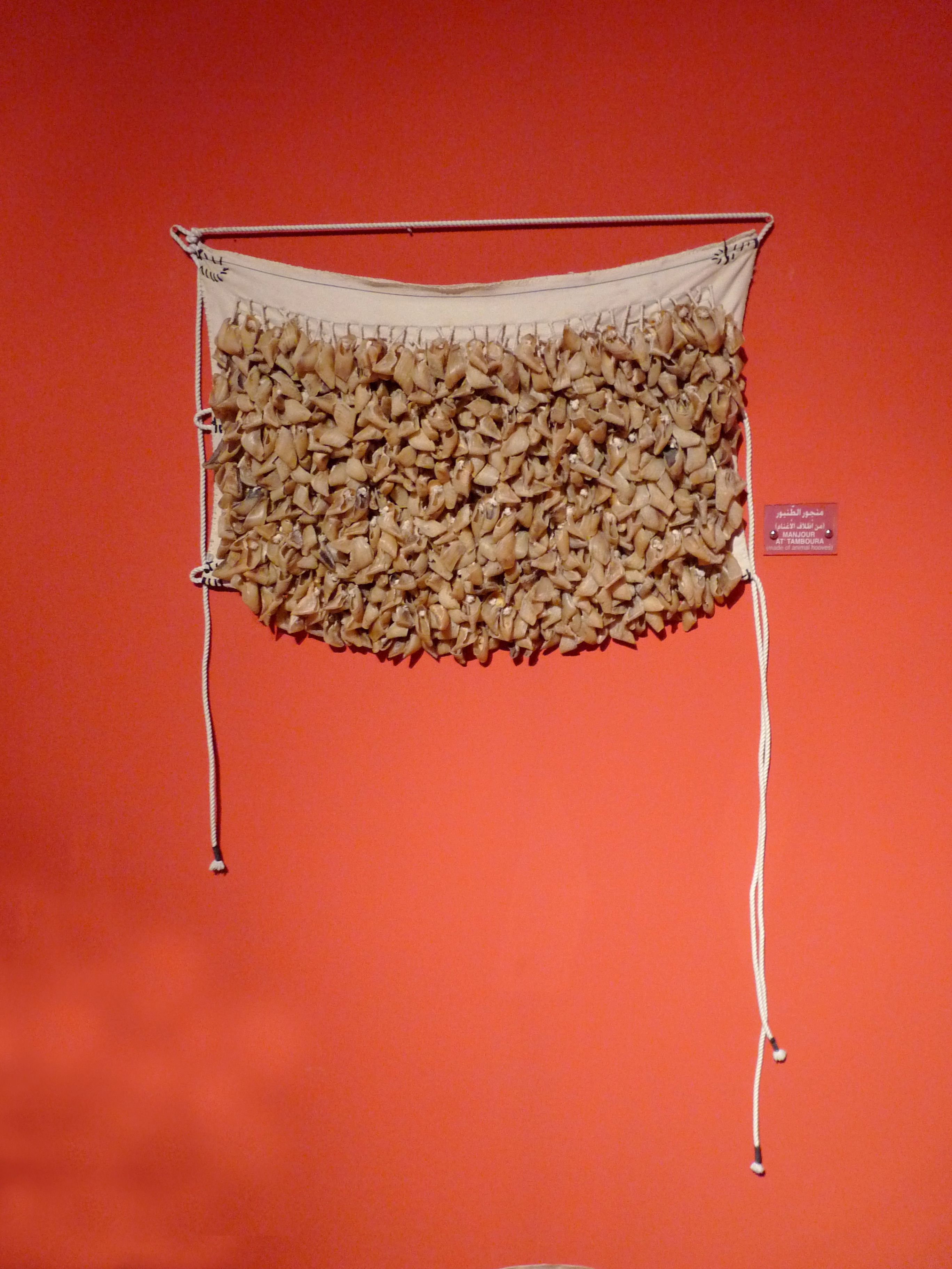 Bait Al Baranda Museum in Muscat (Oman). Manjour at tamboura (made of animal hooves)